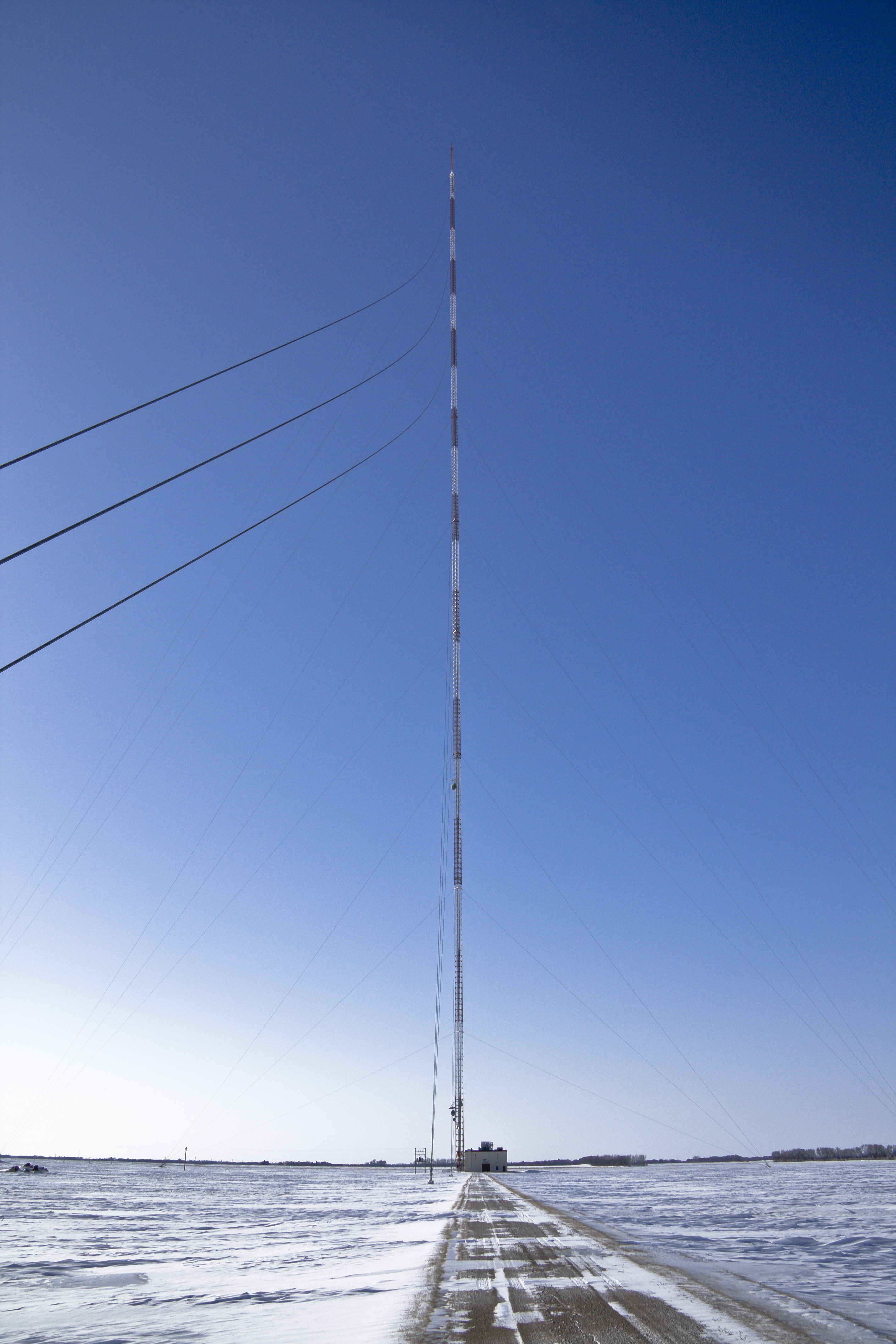 KVLY-TV mast